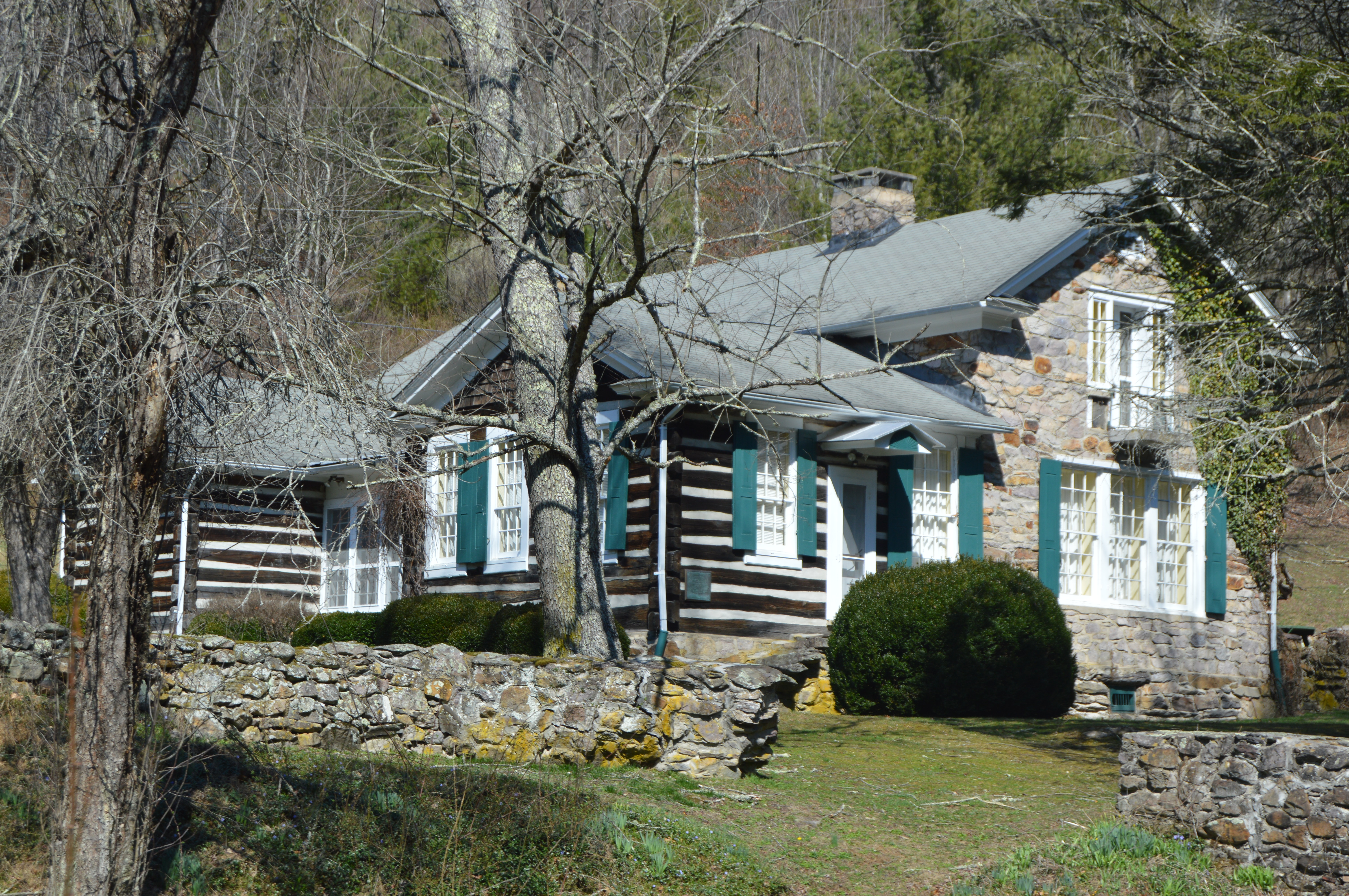 Roadside view of the house at Ripshin Farm, located on Laurel Creek Road east of Troutdale in Grayson County, Virginia, United States. Built in 1925, it was the home of author Sherwood Anderson, and it has been declared a National Historic Landmark.